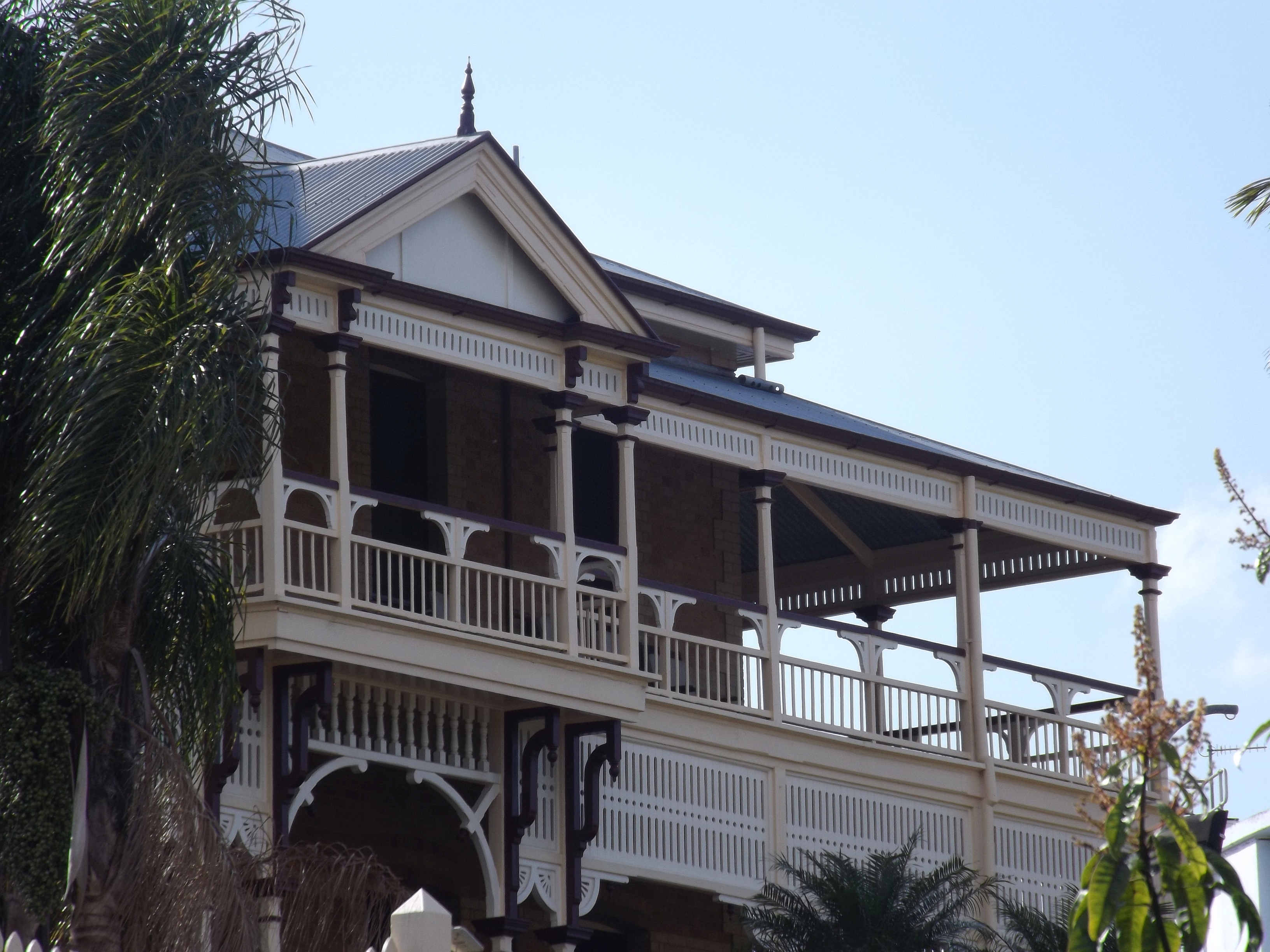 Photo of the verandah of the Fairy Knoll residence in Eastern Heights, Ipswich City, Queensland, Australia.